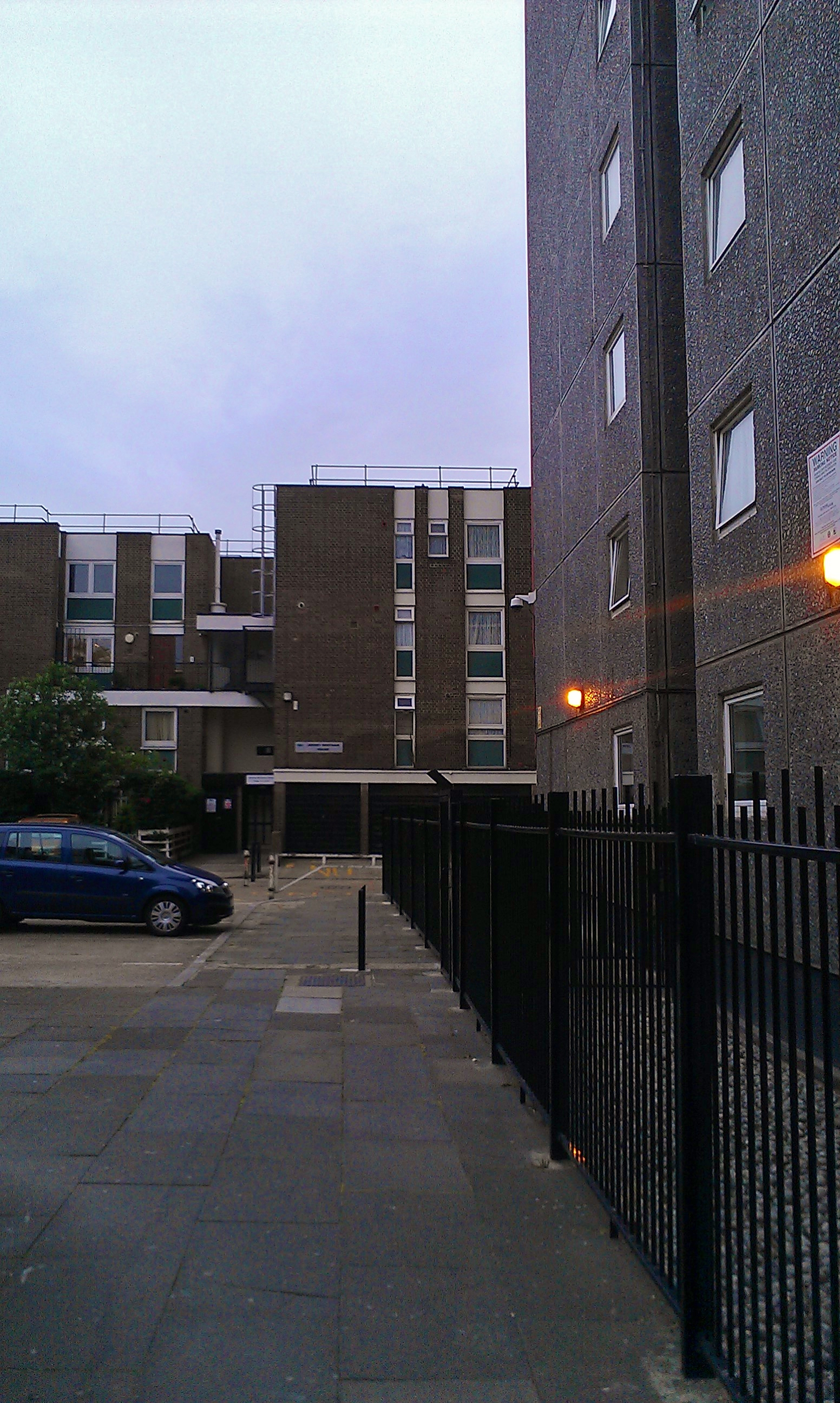 Named after Jeremy Bentham, the Jeremy Bentham House in Bethnal Green is an example of modernist architecture.